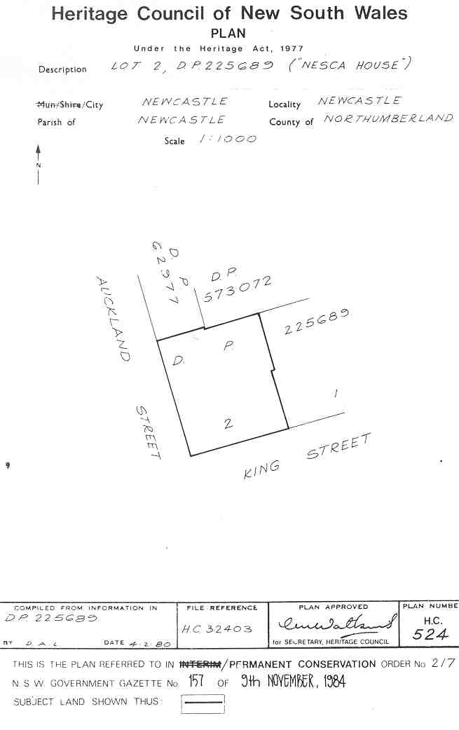 University House, Newcastle, New South Wales: PCO Plan Number 217